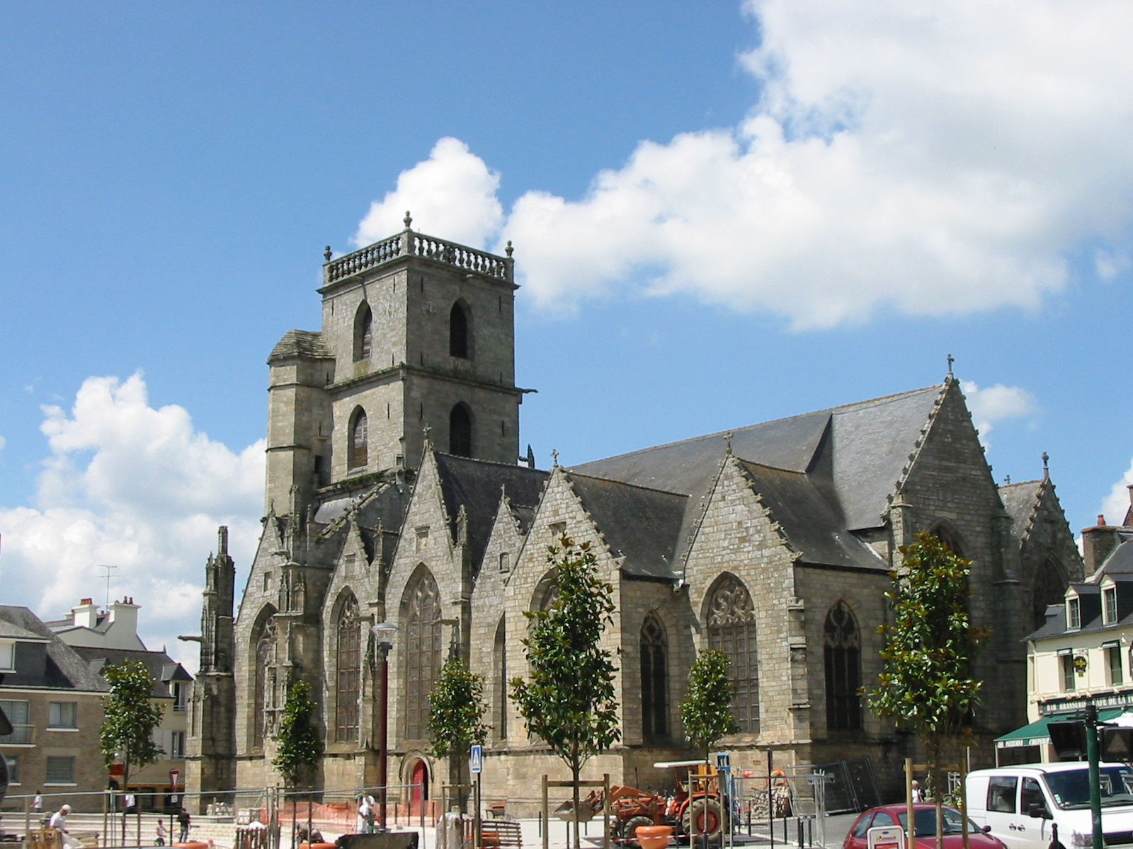 Church of Ploermel (France, Brittany)